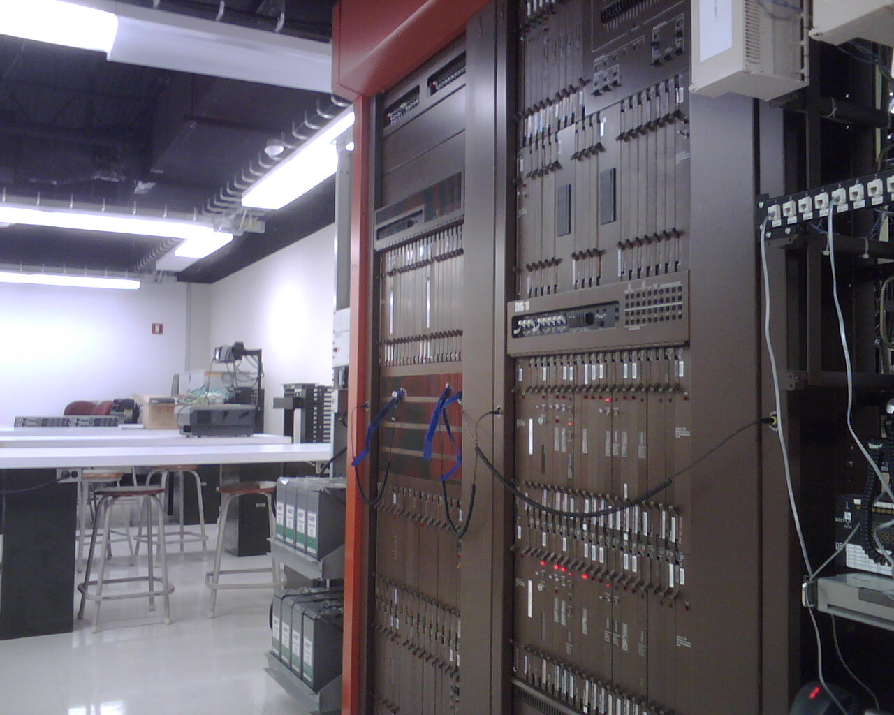 A DMS-10 used as a lab trainer at Southeast Missouri State University.